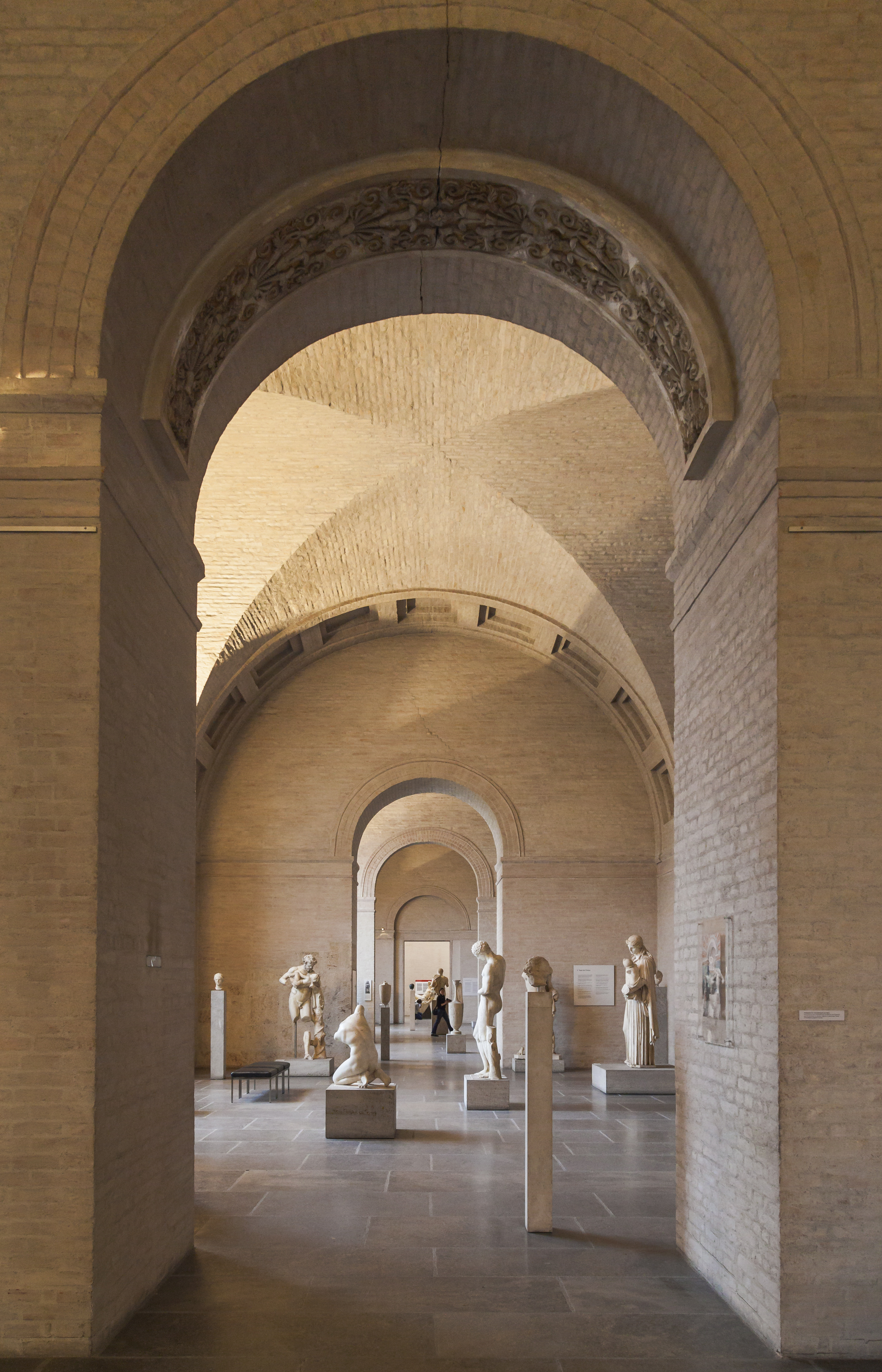 Glyptothek, Munich, Germany